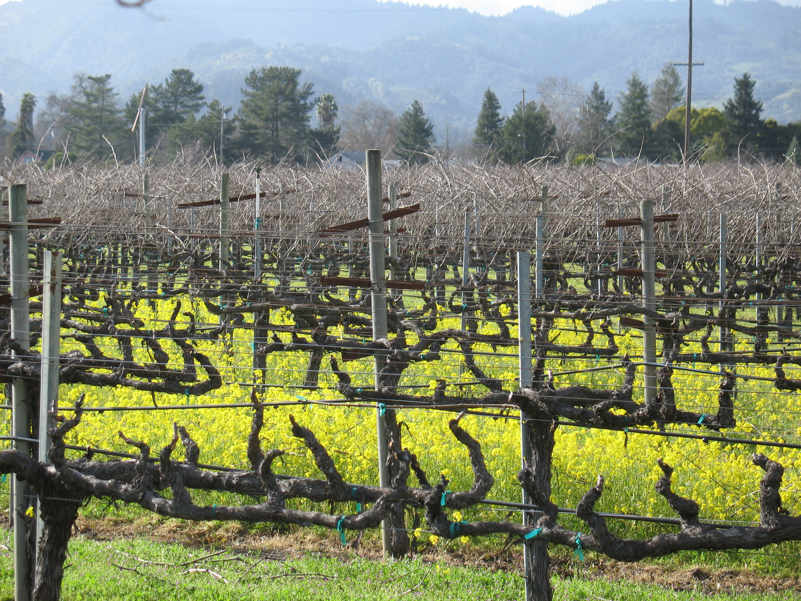 Vines during their winter dormancy that demonstrates a Guyot style training system.